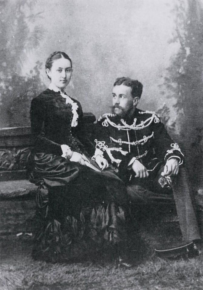 Launitz von der, Vladimir Fyodorovich.